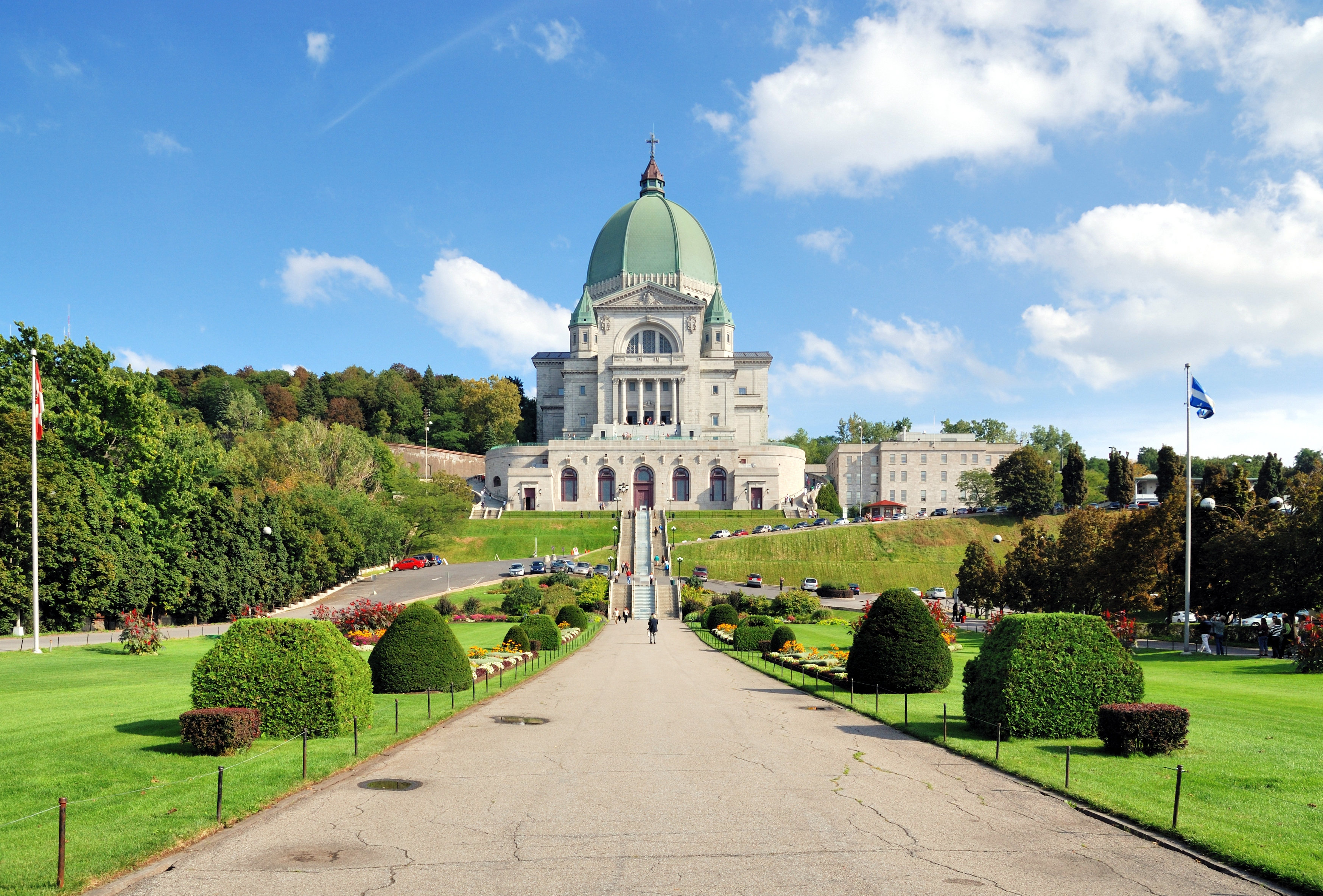 Montréal: Saint Joseph's Oratory of Mount-Royal